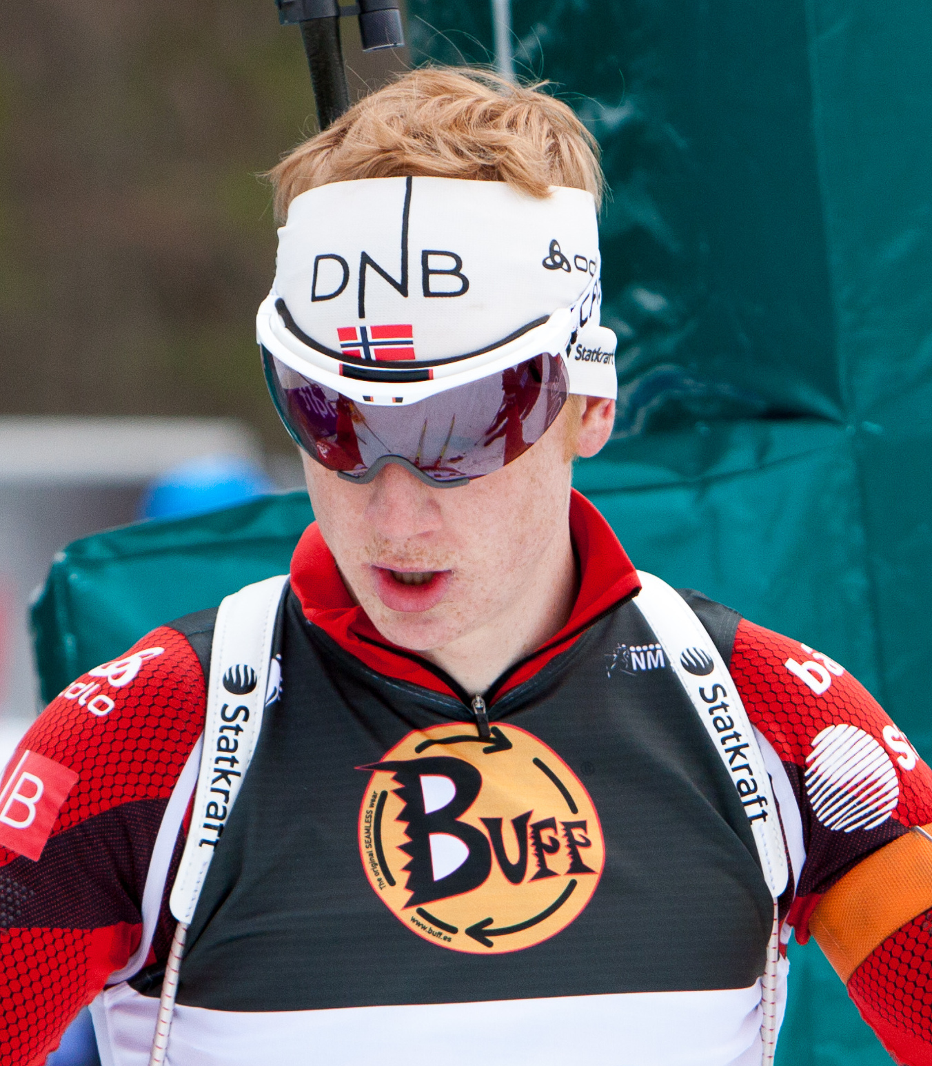 The Norwegian biathlete Johannes Thingnes Bø before the start of the sprint race at the Norwegian biathlon championships 2012 in Trondheim which he would finish in sixth place.